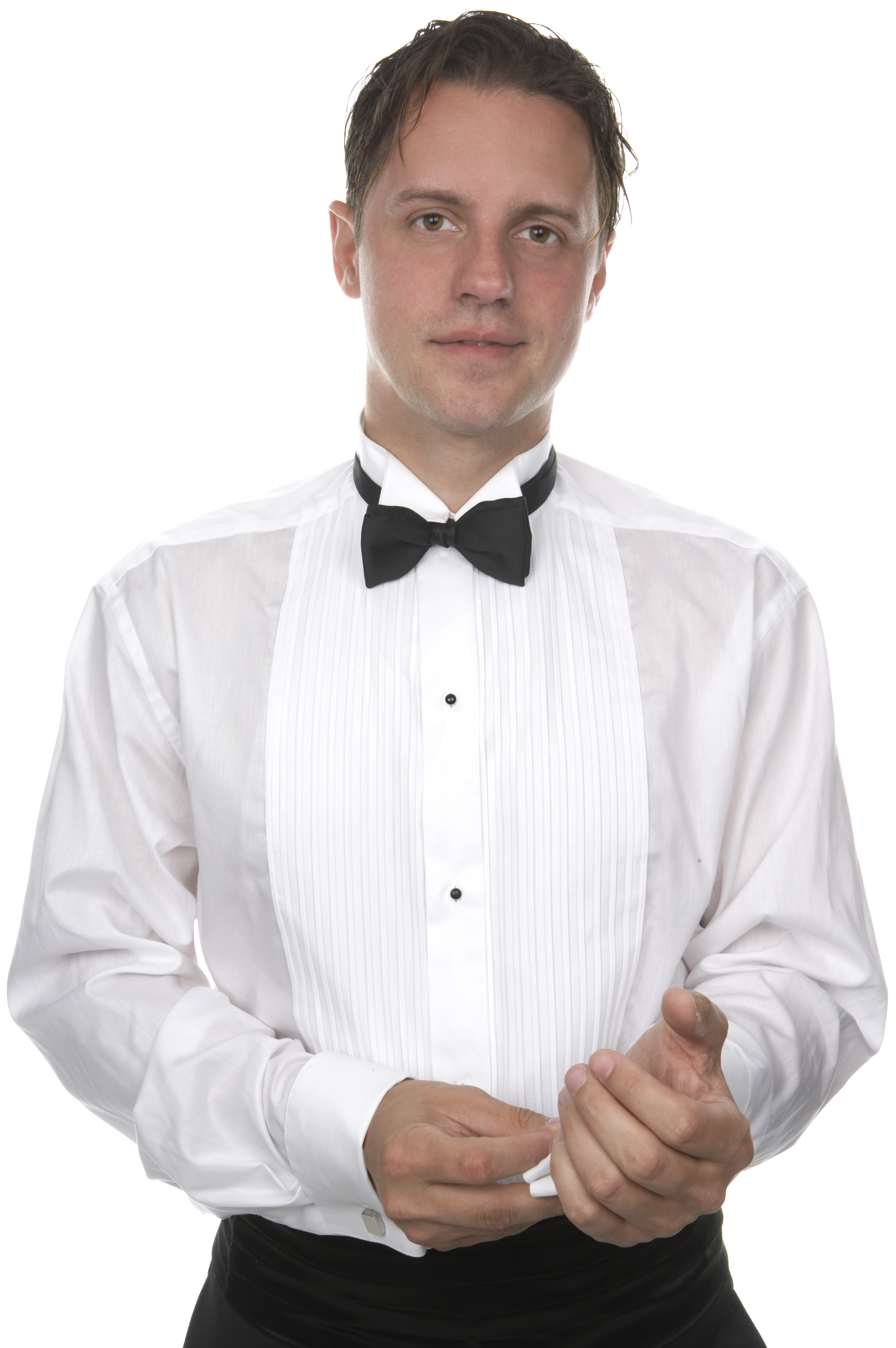 Pressphoto